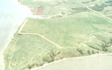 The Crow Creek Site, a National Historic Landmark located along the Missouri River in Buffalo County, South Dakota, United States.